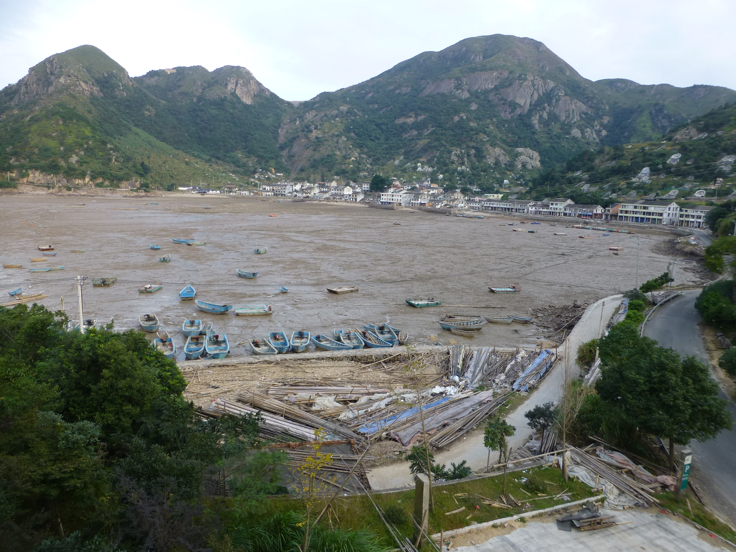 Yu'ao Village (渔岙村) and its harbor, seen from the pagoda promontory. This is low tide, so fishing boats sit in the mud. (Jinxiang Town, Cangnan County, Zhejiang, China.)